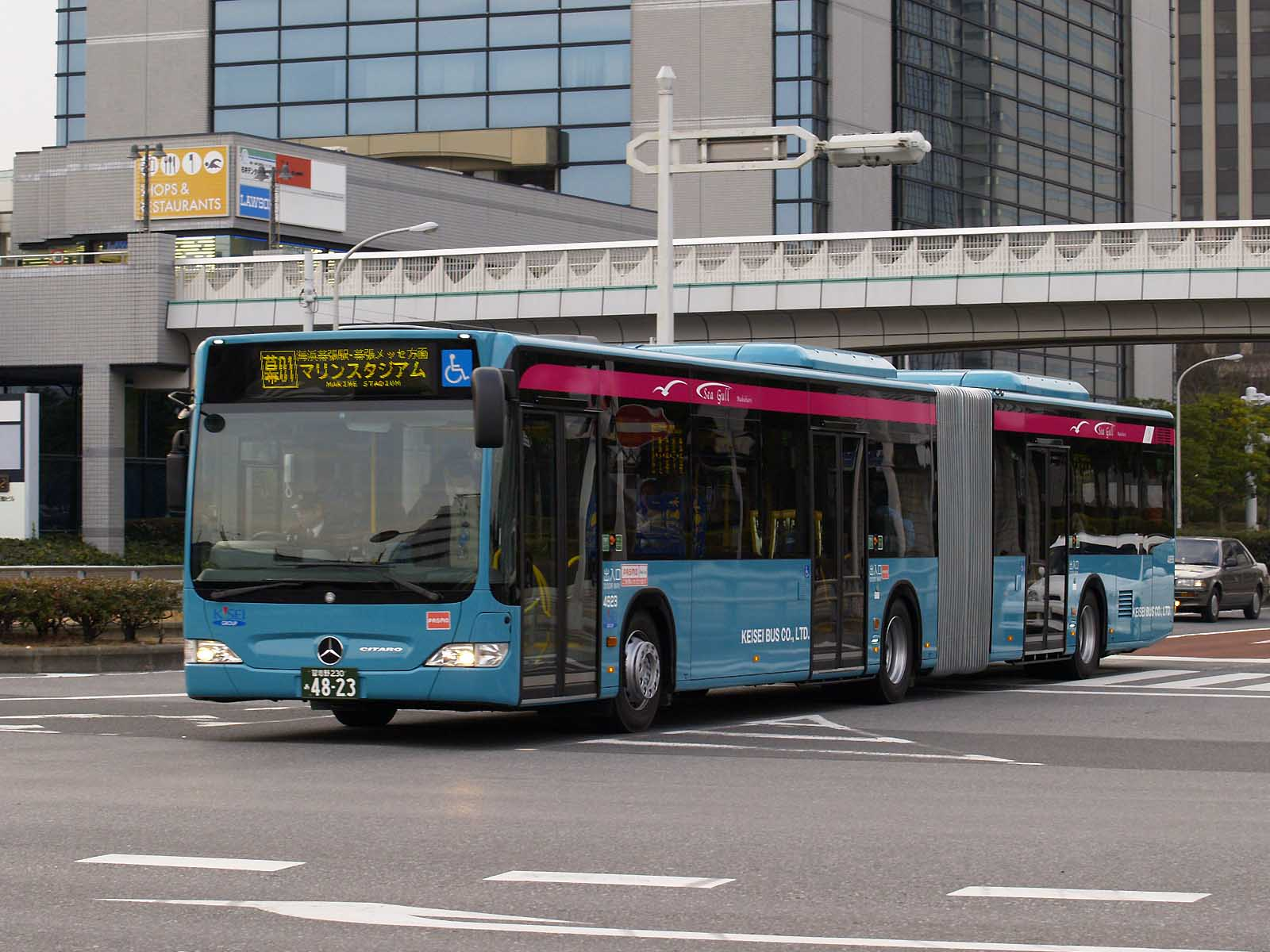 Fleet of Keisei Bus, Citaro G named "Sea Gull Makuhari" is 2nd generation fleet of articulated bus for Makuhari area, operated between Makuhari-Hongo station and Chiba Marine Studium via Makuhari Messe since February 2010. Model: Mercedes-Benz O530 Citaro G License plate: CBN230 A4823 Place: neighbour of Kaihin-Makuhari station, Mihama Ward, Chiba Japan